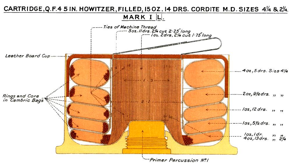 Diagram of Mk I Cartridge for British QF 4.5 inch Howitzer, World War I. Rings (cloth bags) containing Cordite are stacked around a central core of cordite. 1 or more of the rings were removed just before loading, for shorter than maximum ranges.